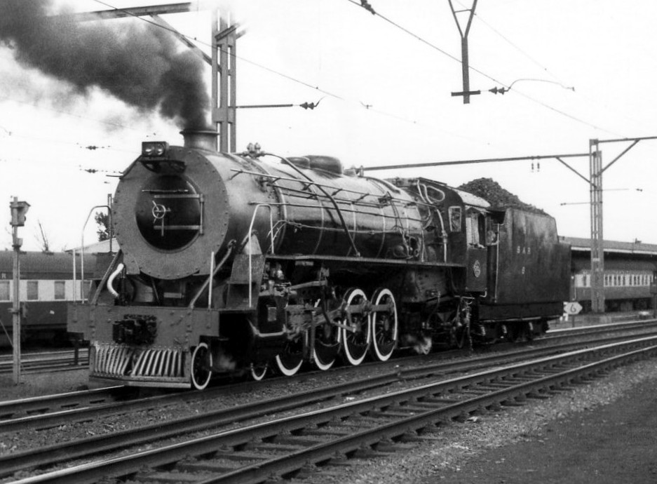 SAR Class 15CA 2850 (4-8-2) NBLLocation: Kroonstad